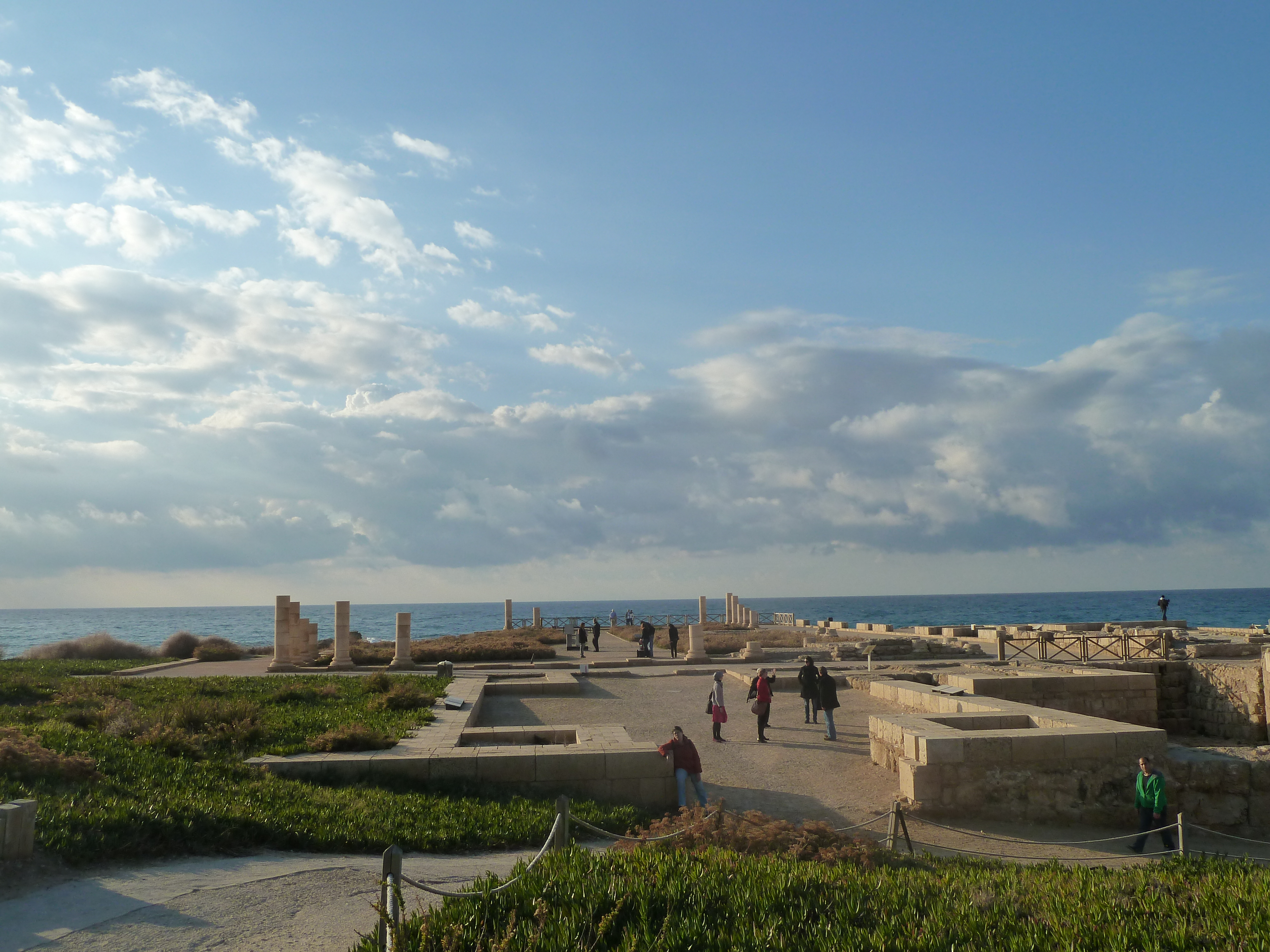 Remains King Herod's Promontory Palace, Caesarea Maritima, Israel